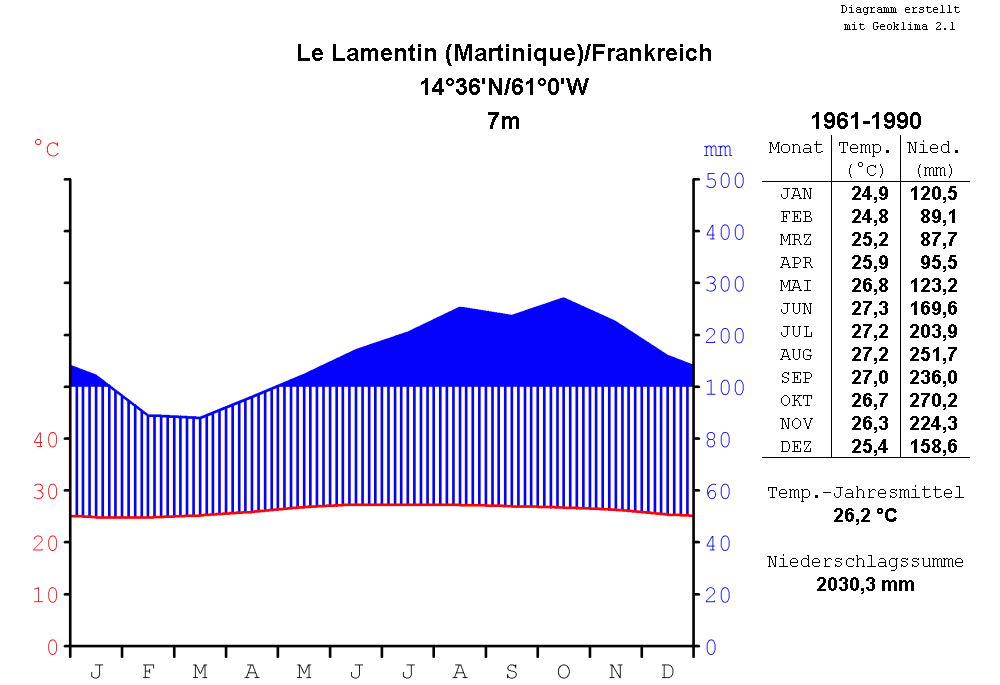 climate chart of Le Lamentin, Martinique, France, for the period of time from 1961 to 1990, in the format by Walter and Lieth, metric, °Celsius and millimeters, chart made with Geoklima 2.1, label in German